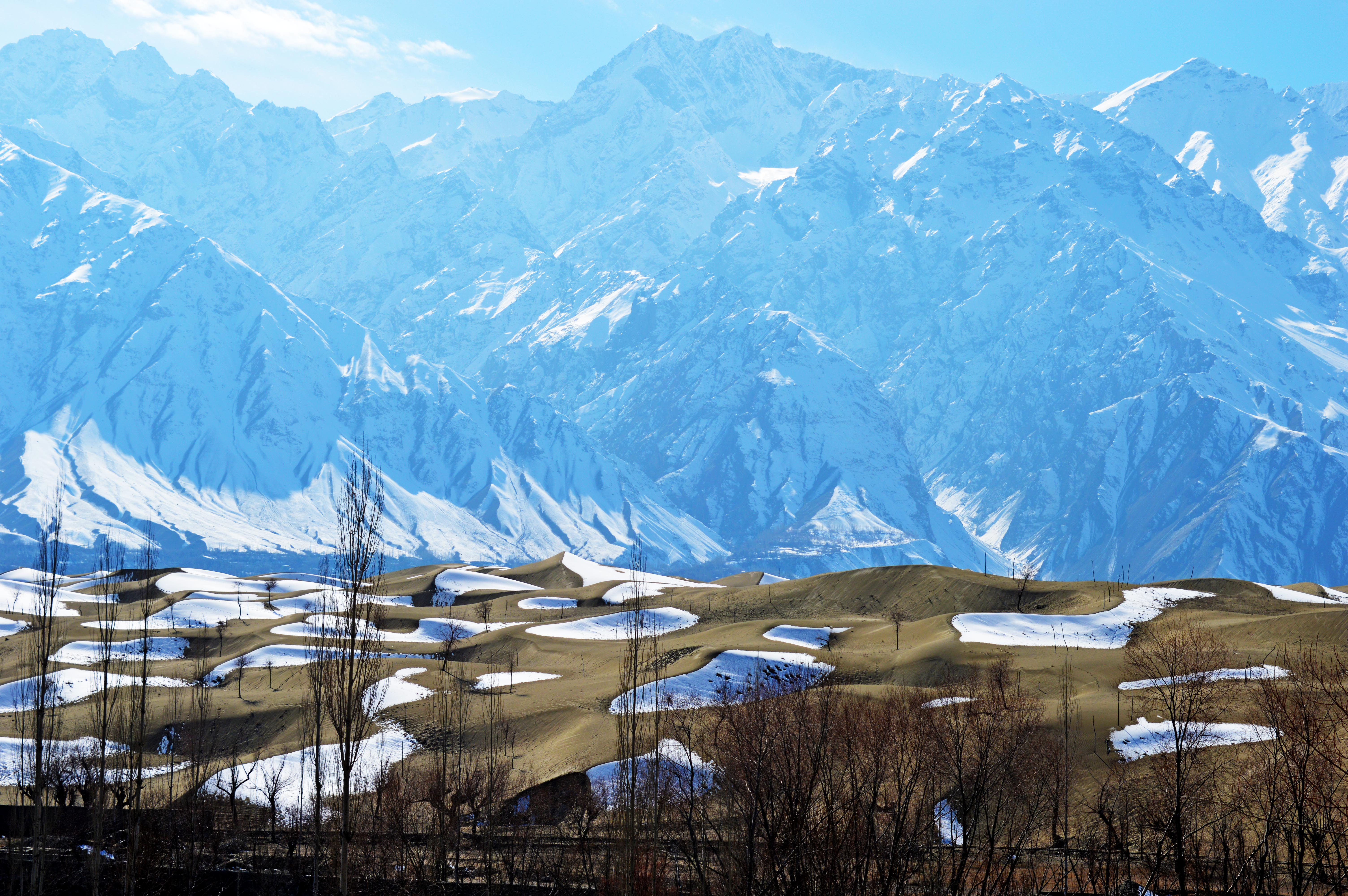 Snow in desert. A very unexpected view.